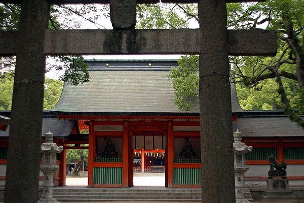 Front view of Sumiyoshi shrine at Hakata-ku, Fukuoka city, Fukuoka prefecture, Japan.